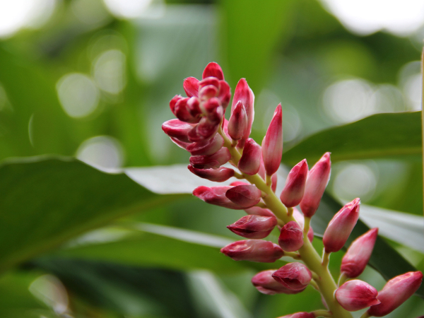 Photo place: South China biotanical Garden